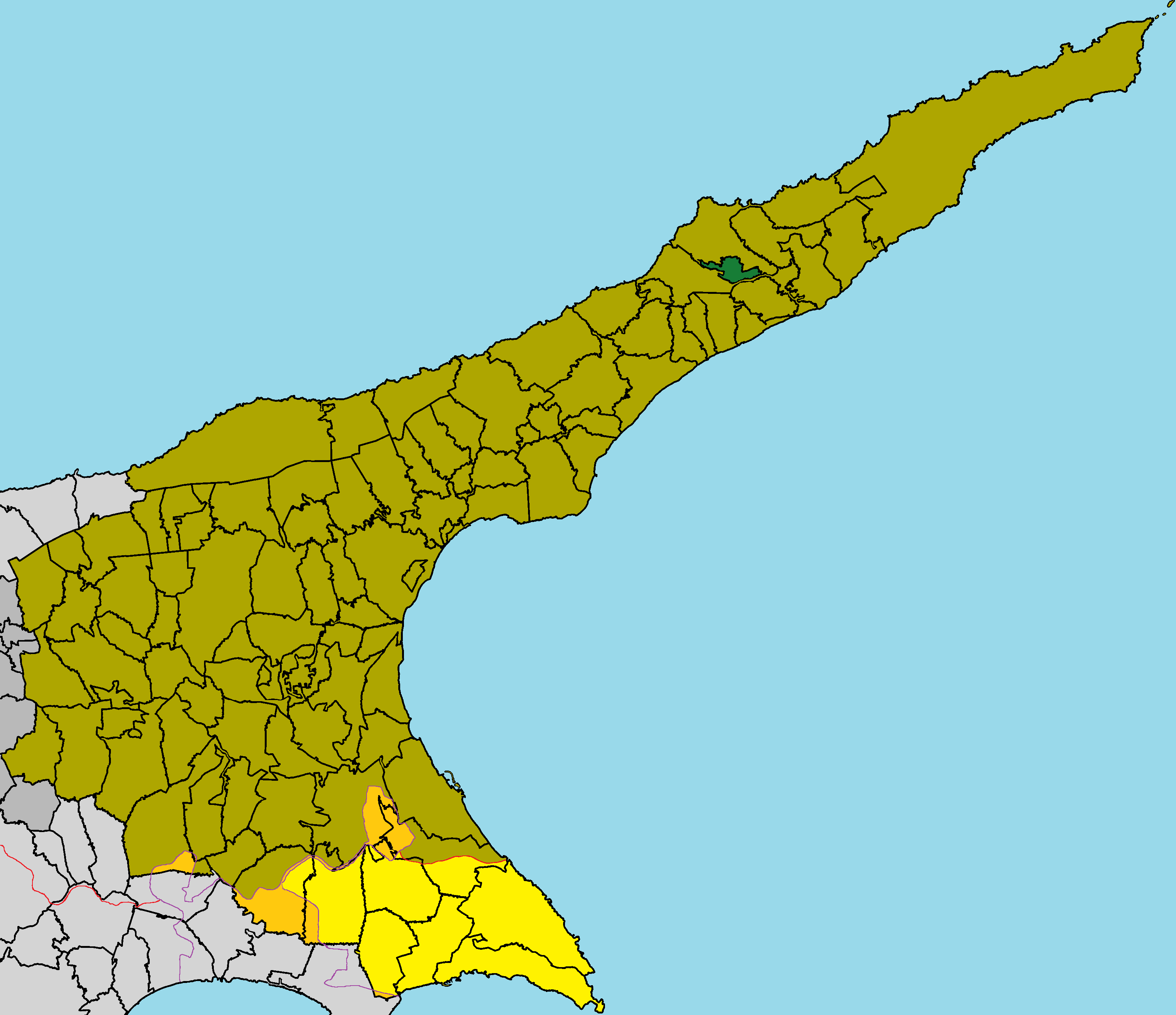 Melanarga in Famagusta District (de jure).